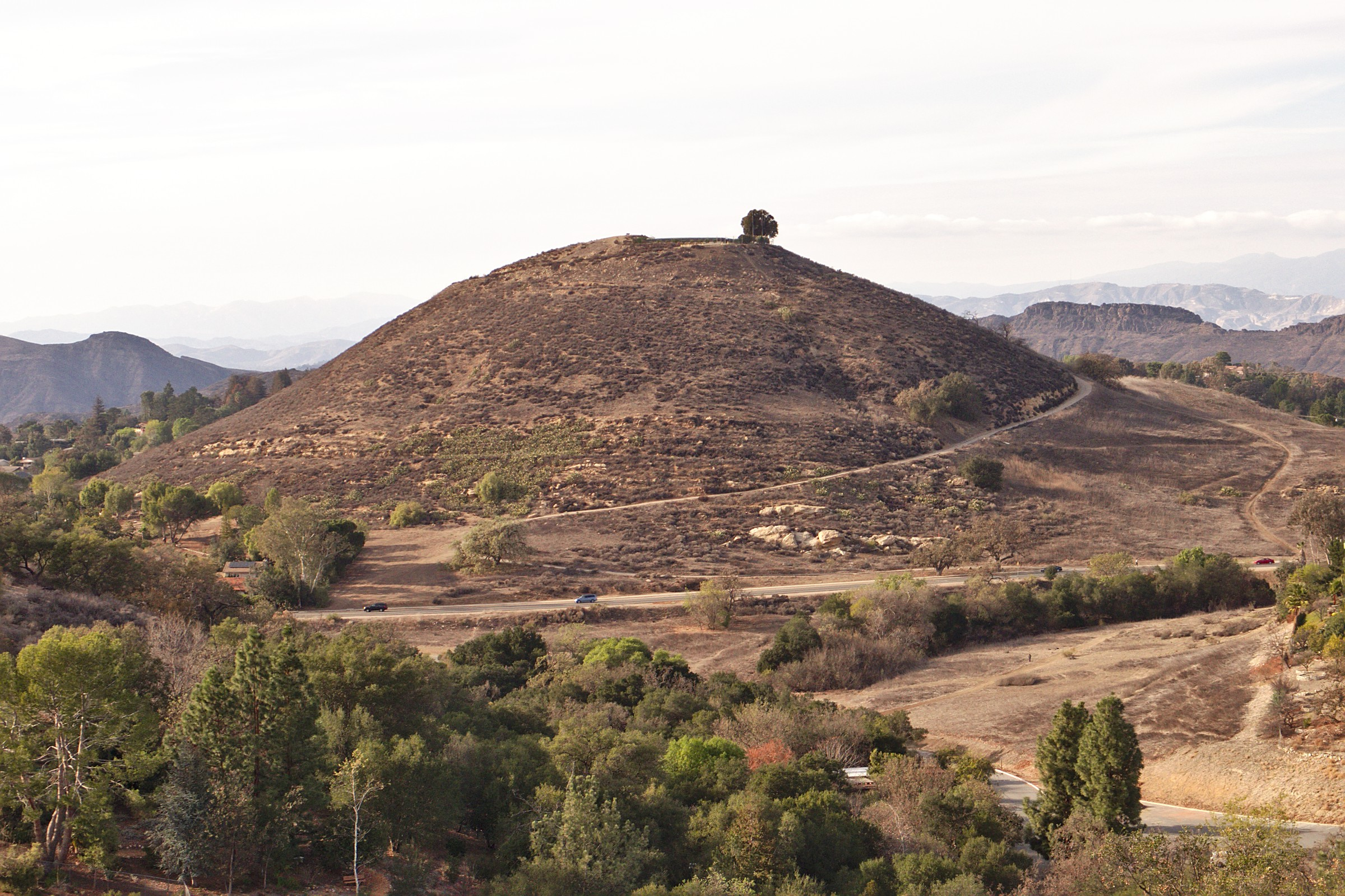 Dawn's Peak, more popularly known as Tarantula Hill, viewed from the hills above the Conejo Valley Botanical Garden in Thousand Oaks, California.